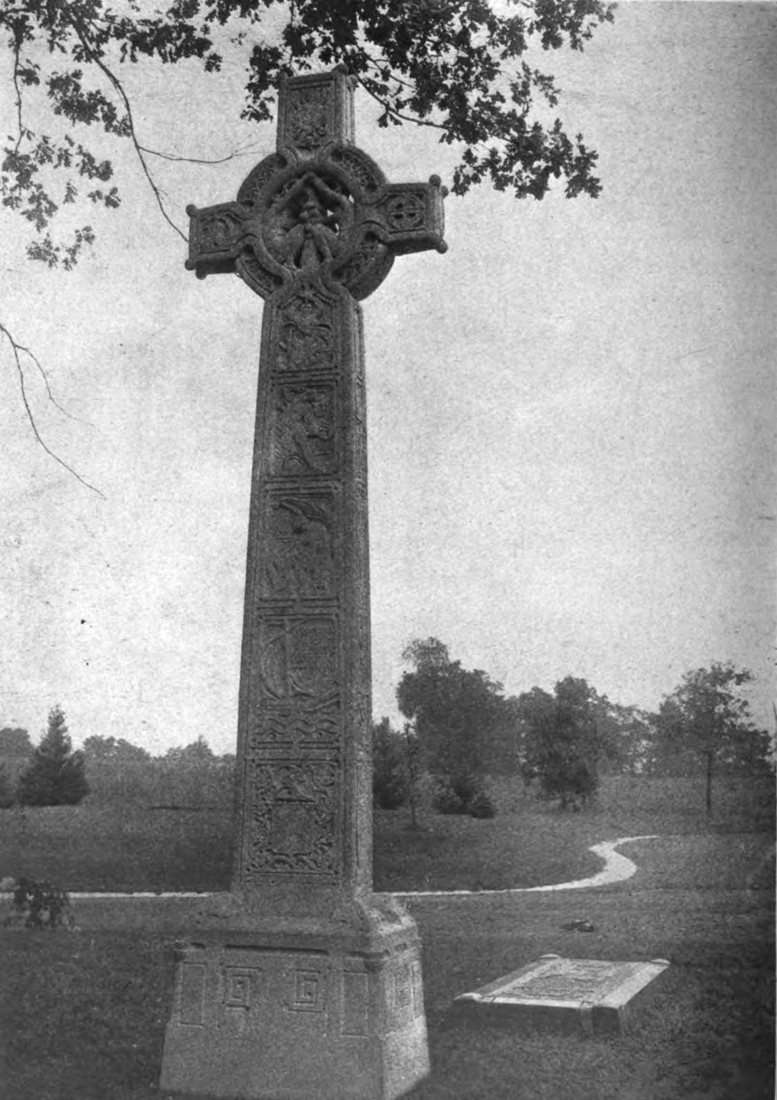 General William Joyce Sewell Monument (1901), Harleigh Cemetery, Camden, New Jersey, Alexander Stirling Calder, sculptor.